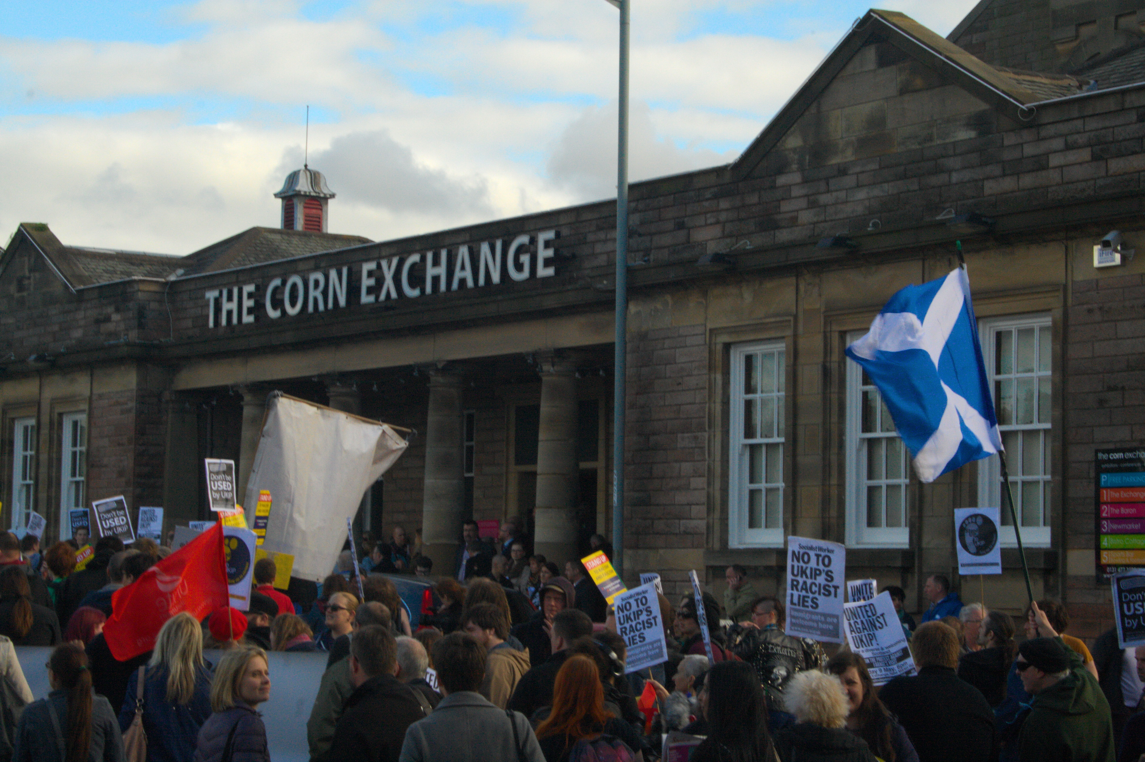 Friday, May 10 2014. Anti-UKIP protest at Edinburgh's Corn Exchange.